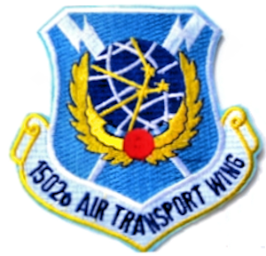 Emblem of the USAF 1502d Air Transport Wing (MATS)